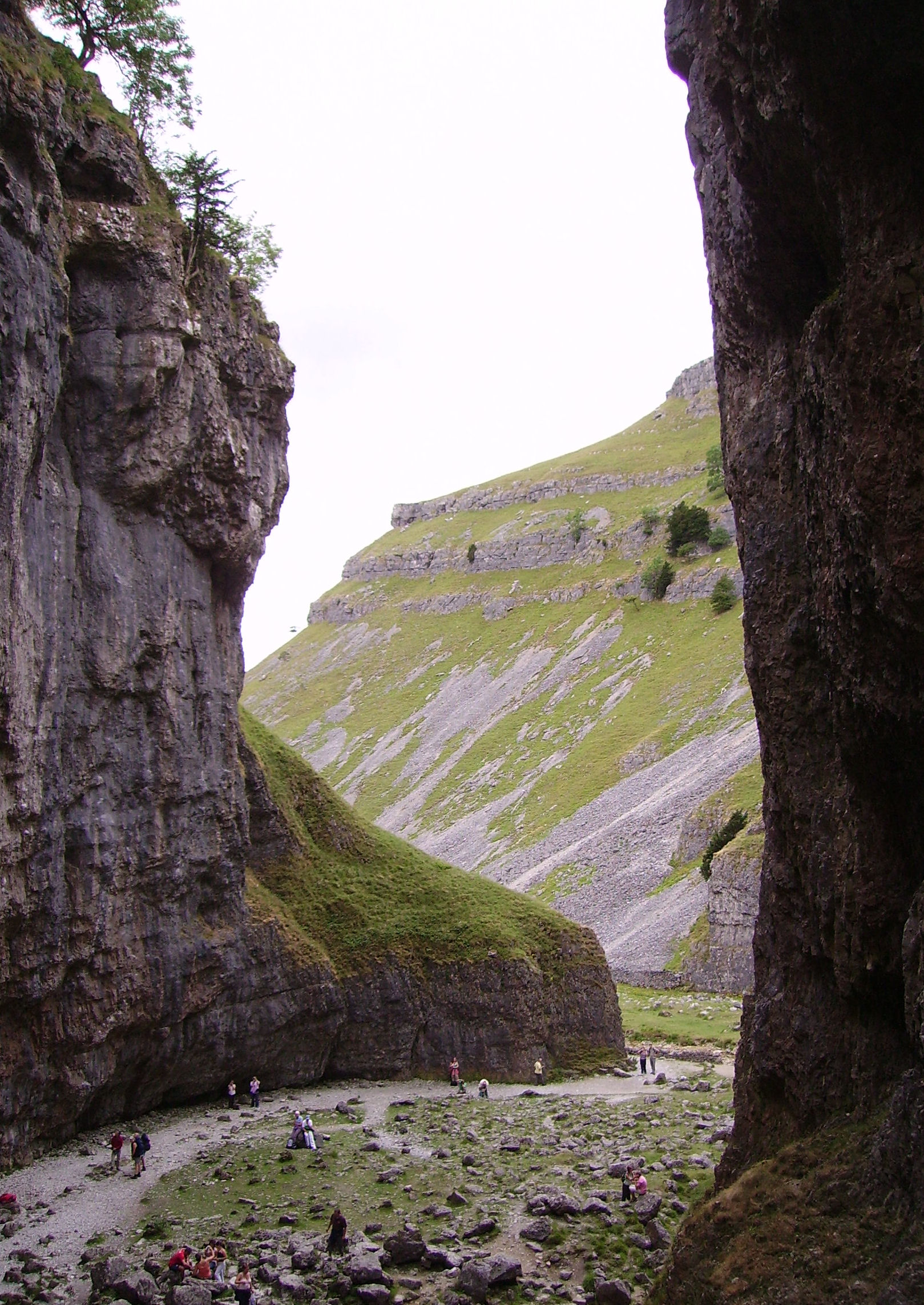 Gordale Scar in the Yorkshire Dales, United Kingdom